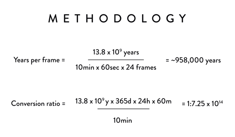 The methodology of Timelapse of the Entire Universe, a short film by musician-filmmaker John D. Boswell. In summary, every second is 22 million years.